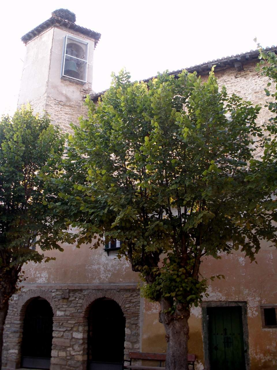 Iglesia de Arkaute (Álava)